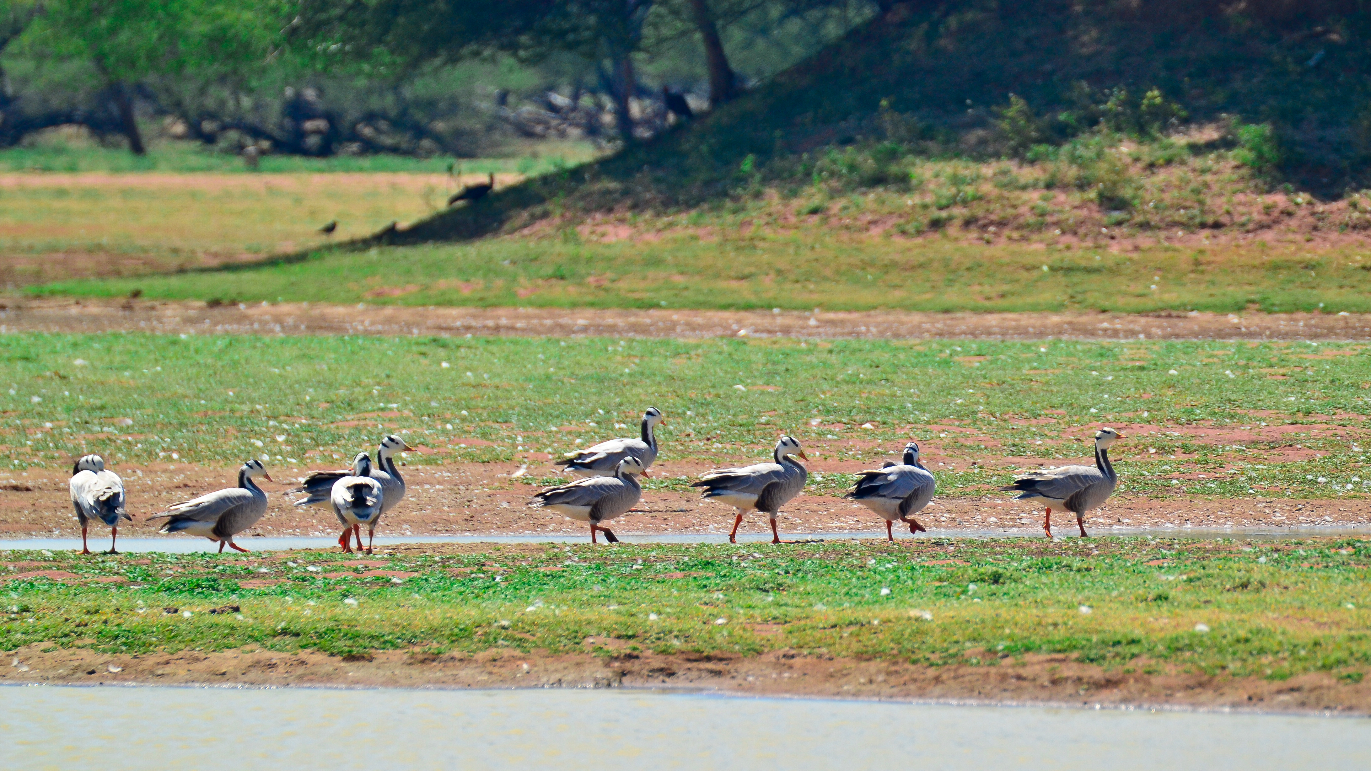 A flock of Bar-headed Geese (Anser indicus) at the lake in Koonthakulam Bird Sanctuary, Tirunelveli District, Tamil Nadu, India